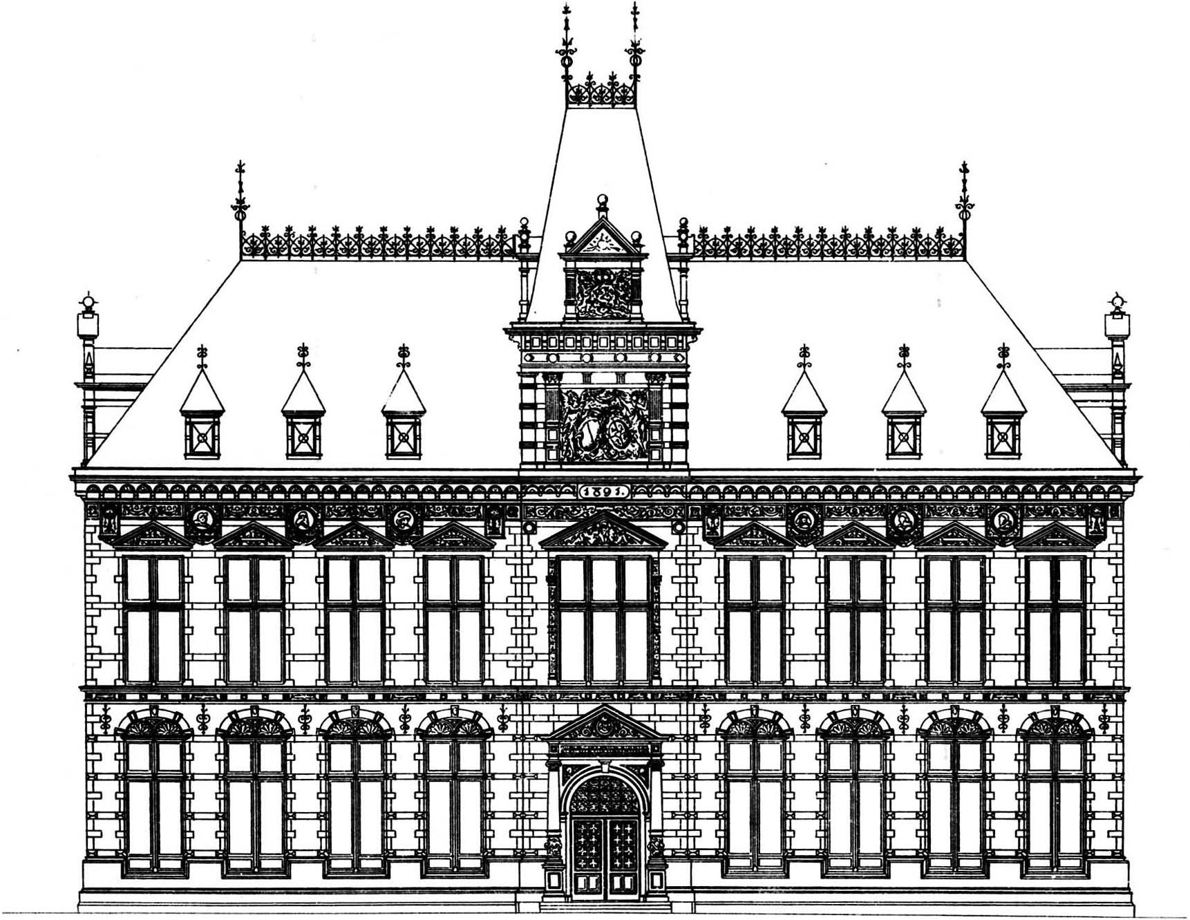 Academiegebouw, Domplein, front elevation.